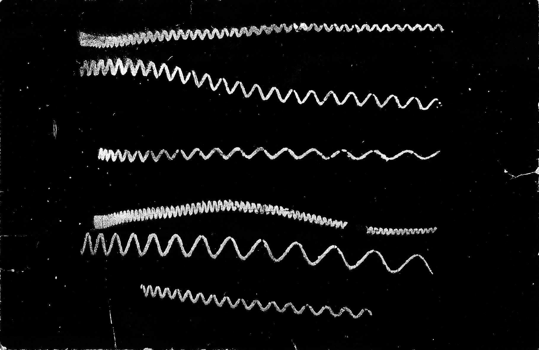 A needle on a tuning fork carved these figures on a glass plate covered with carbon black. As the plate is moved from left to right, the sinewave-shaped swinging motion appears.